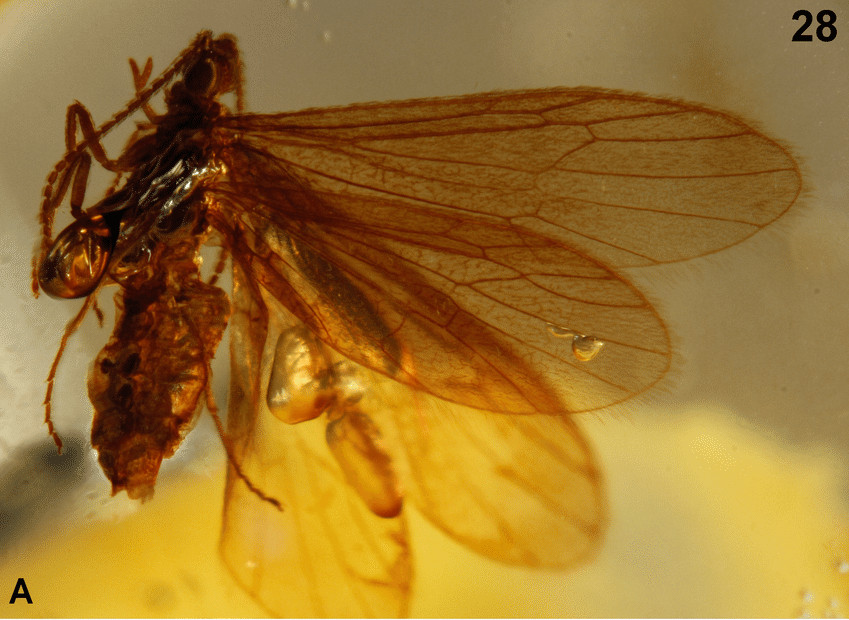 Kinitocelis hennigi, holotype♀ (B113): (a)dorso-lateral view